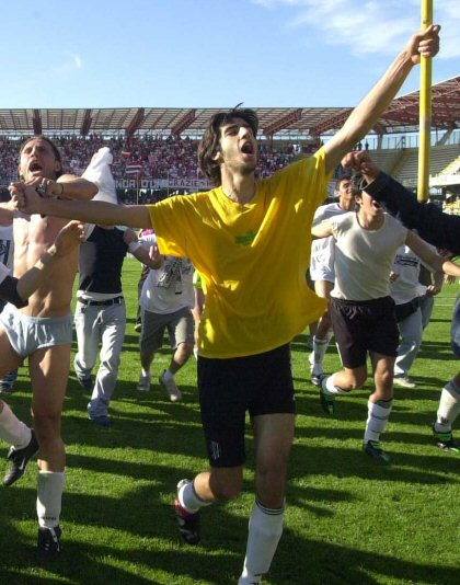 Marco Bernacci (born 1983 ?) under Curva Mare after Cesena-Rimini 2-0 (play-off return match, 2004)